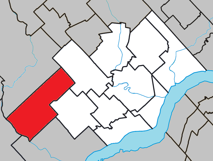 Location of Notre-Dame-du-Mont-Carmel, Quebec within Les Chenaux Regional County Municipality.